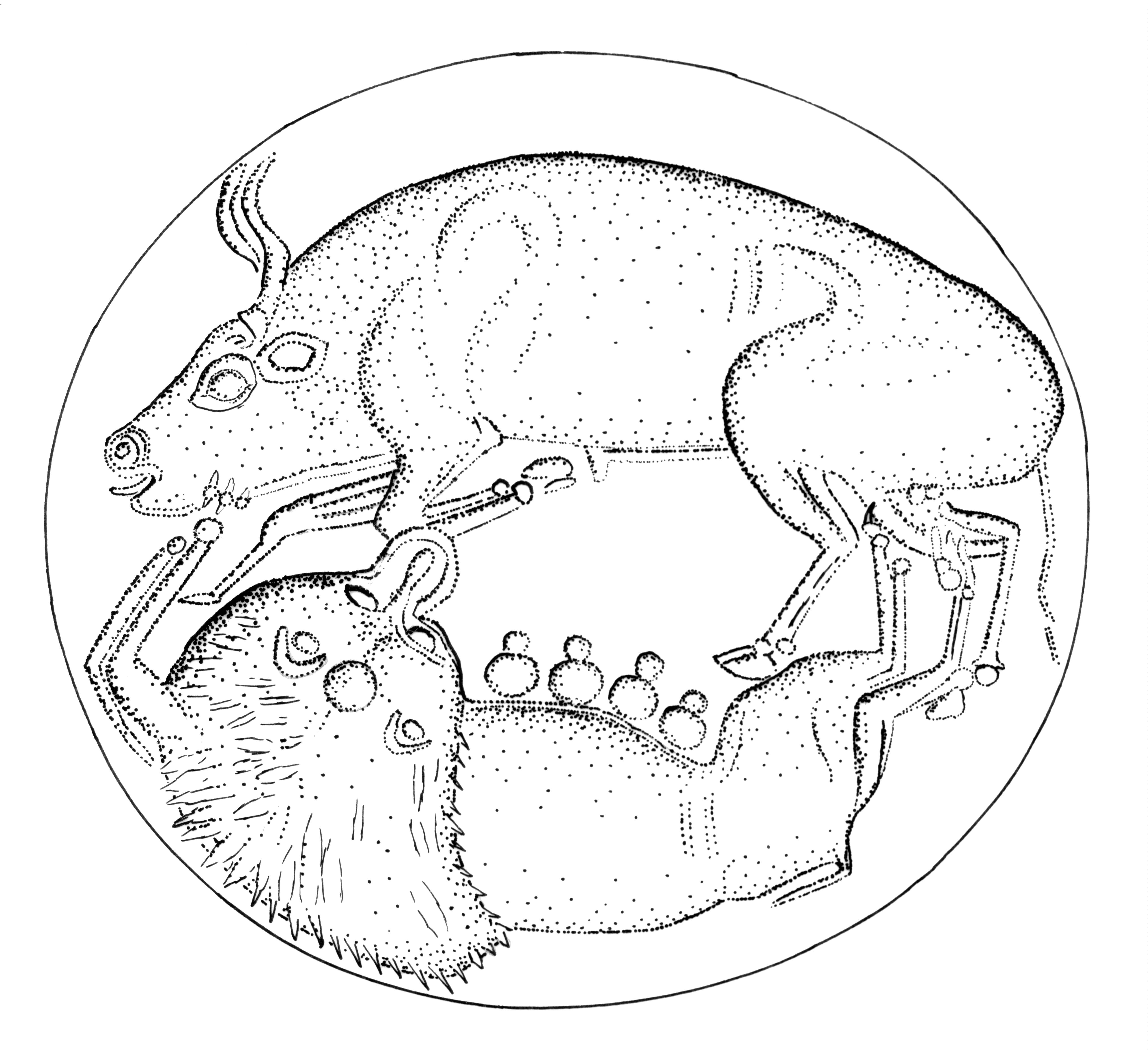 late minoan mycenaean seal viewed as an impression, P. Yule